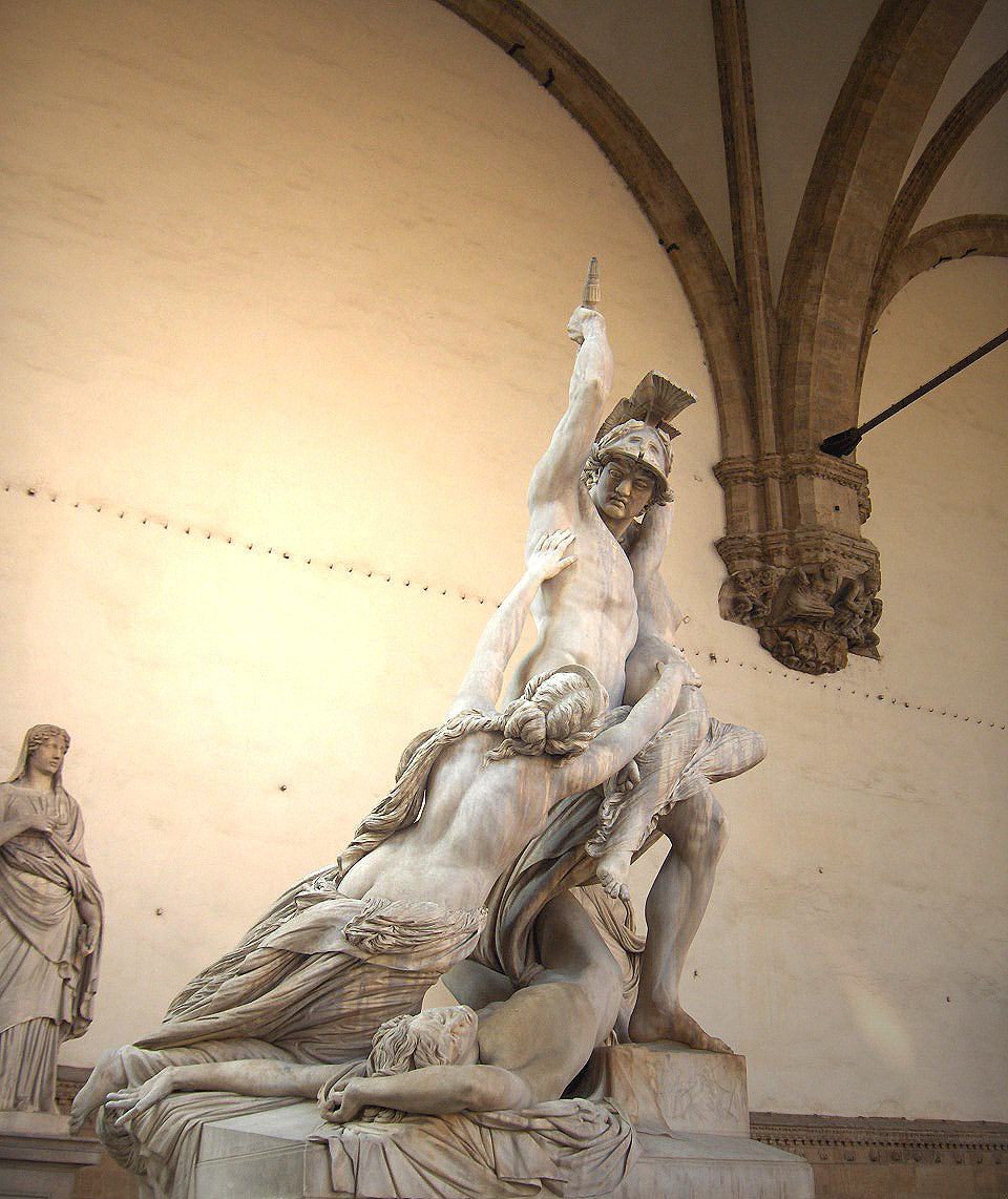 "The Rape of Polyxena", sculpture by Pio Fedi (1816-1892), in 1866 : Loggia dei Lanzi, Florence, Italy.